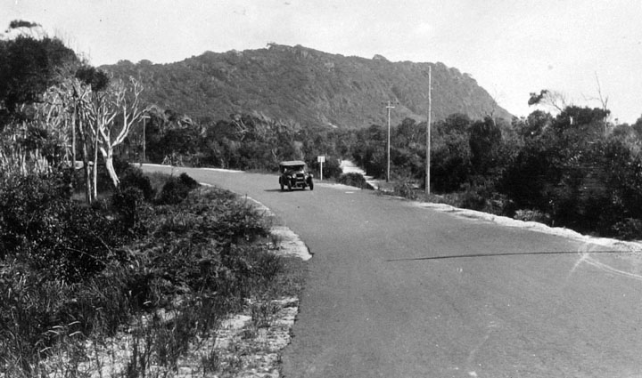 Main Pacific Highway near Burleigh Heads with Big Burleigh in the background.